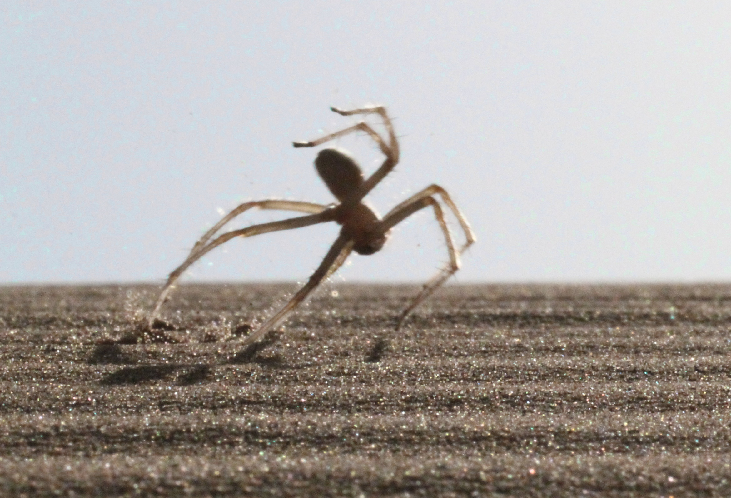 Cebrennus rechenbergi doing the flic-flac.